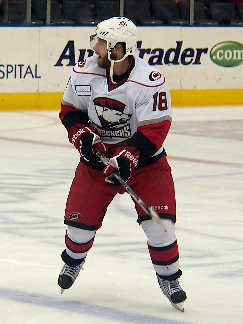 Jacob Micflikier skatin in center ice.